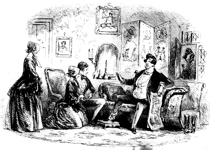 A model of parental deportment by "Phiz" (Hablot Knight Browne) for Bleak House, p. 232 (ch. 23, "Esther's Narrative"). 5 1/2 x 3 3/4 inches.